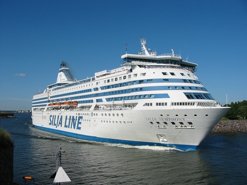 M/S Silja Symphony on Kustaanmiekka strait, leaving from Helsinki, Finland